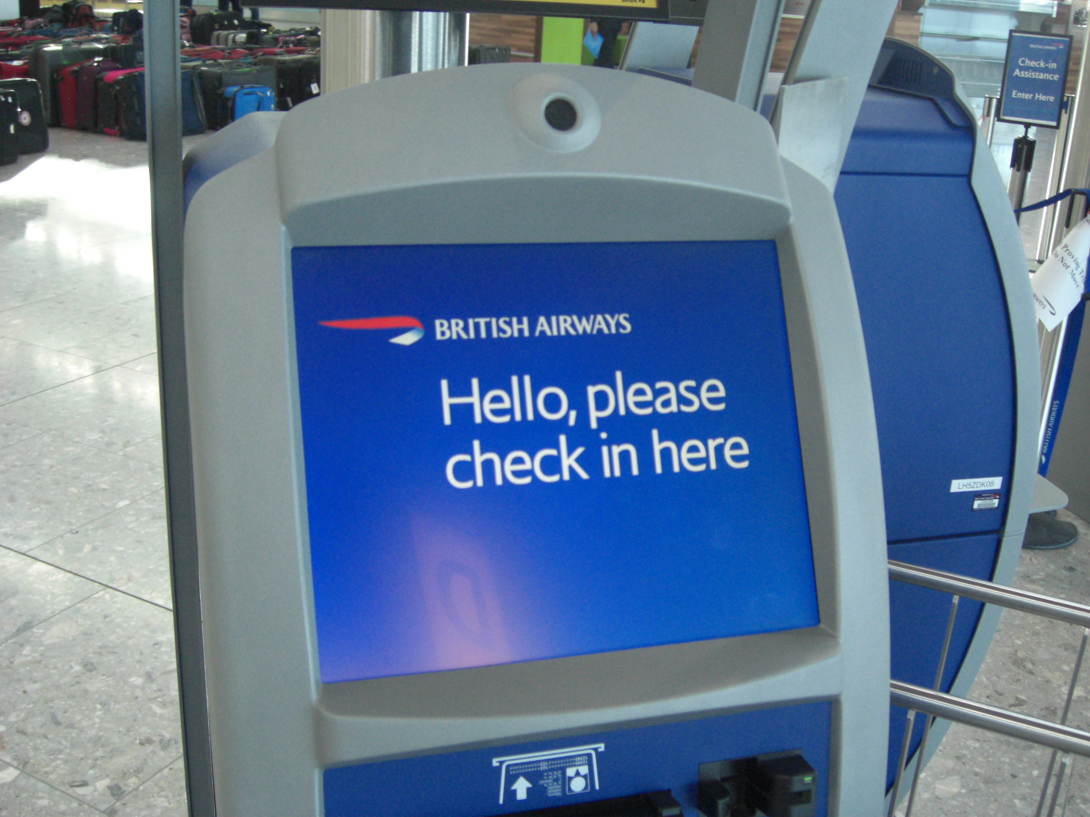 Heathrow Terminal 5 - Check-in Kiosk